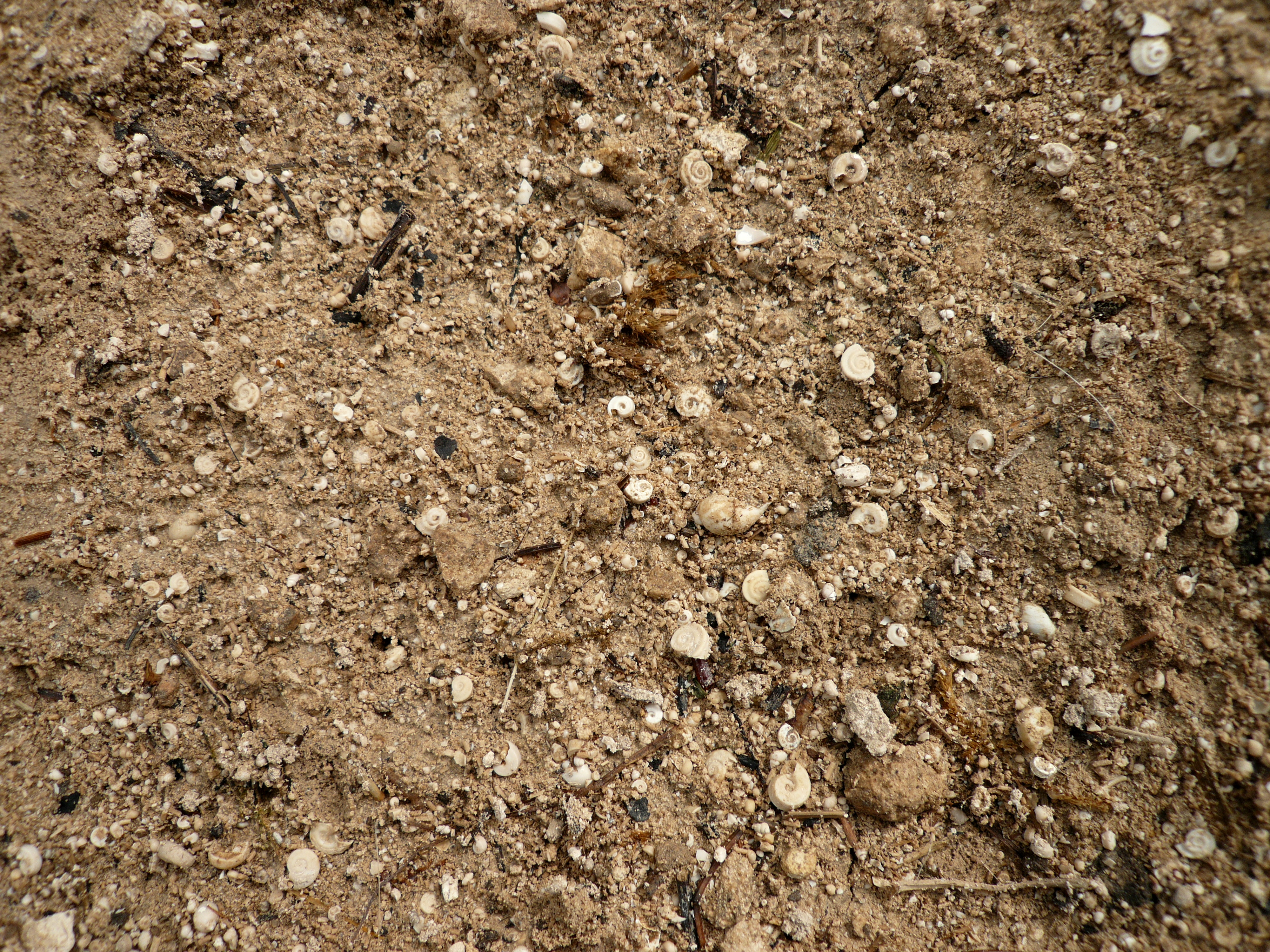 Sand mixed with fossile snails in Steinheimer Becken